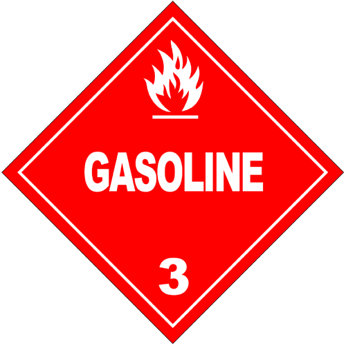 Source: "Emergency Response Guidebook." U.S. Department of Transportation, 2004, pages 16-17.